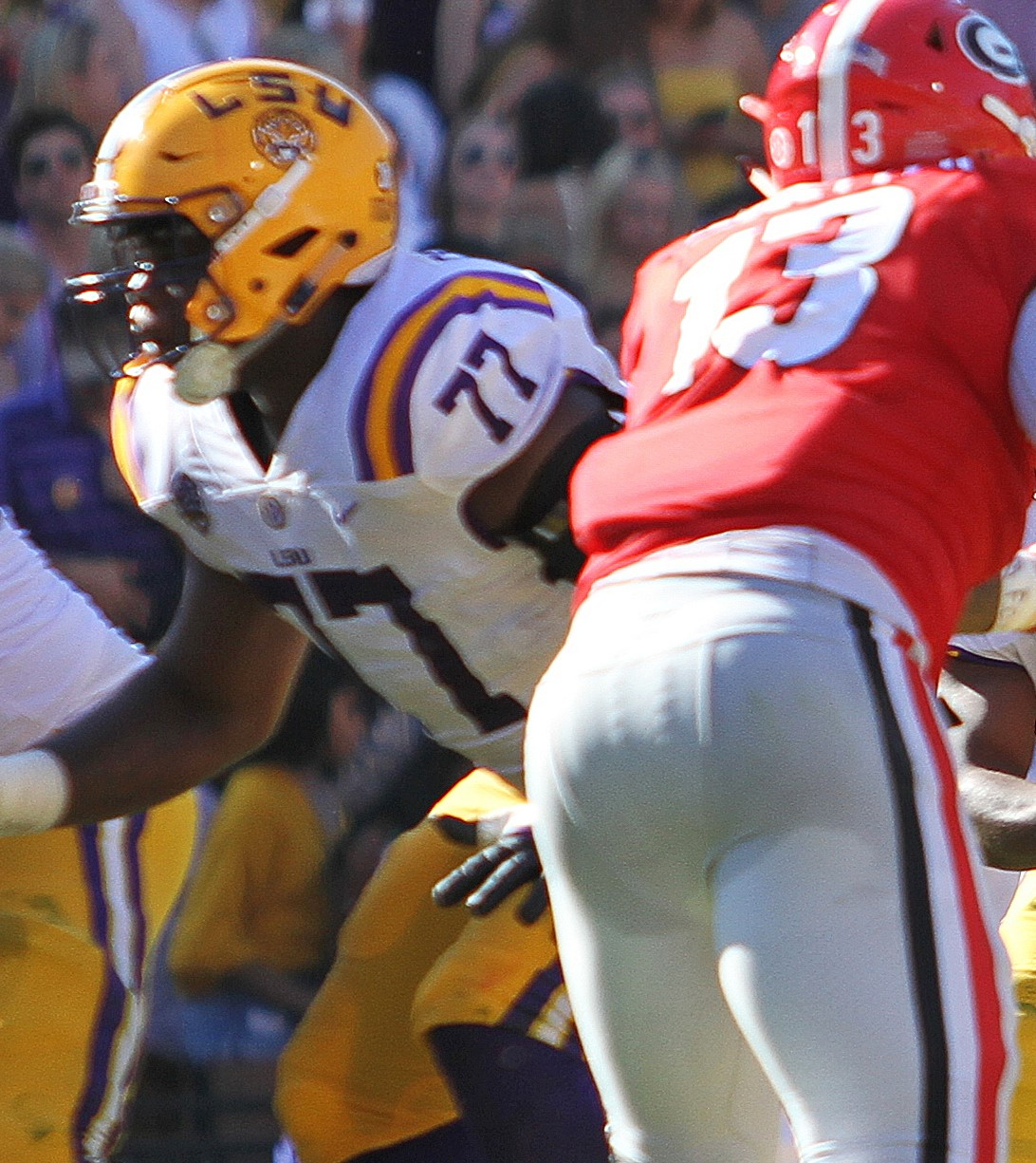 LSU Tigers offensive tackle Saahdiq Charles (77) and Georgia Bulldogs defensive end Jonathan Ledbetter (13), Georgia Bulldogs vs LSU Tigers, Football, Tiger Stadium, October 13, 2018, Baton Rouge, Louisiana, Tammy Anthony Baker, Photographer